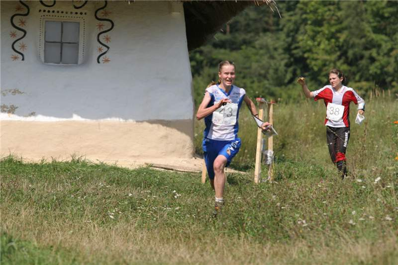 World Orienteering Championships 2007 in Kiev, Ukraine. On photo Finn Heli Jukkola and Dane Signe Søes.